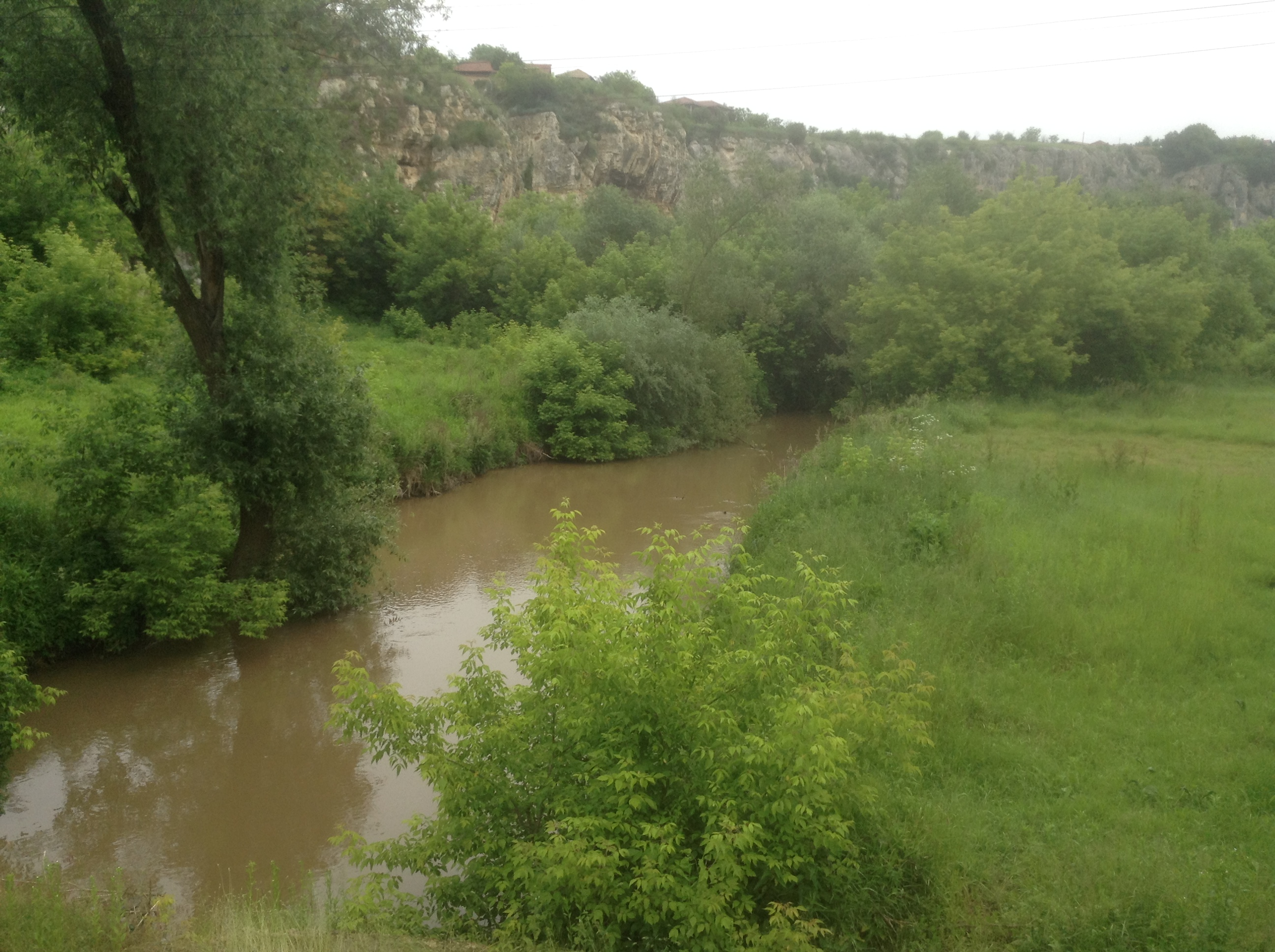 Cherni Lom river down village ov Cherven